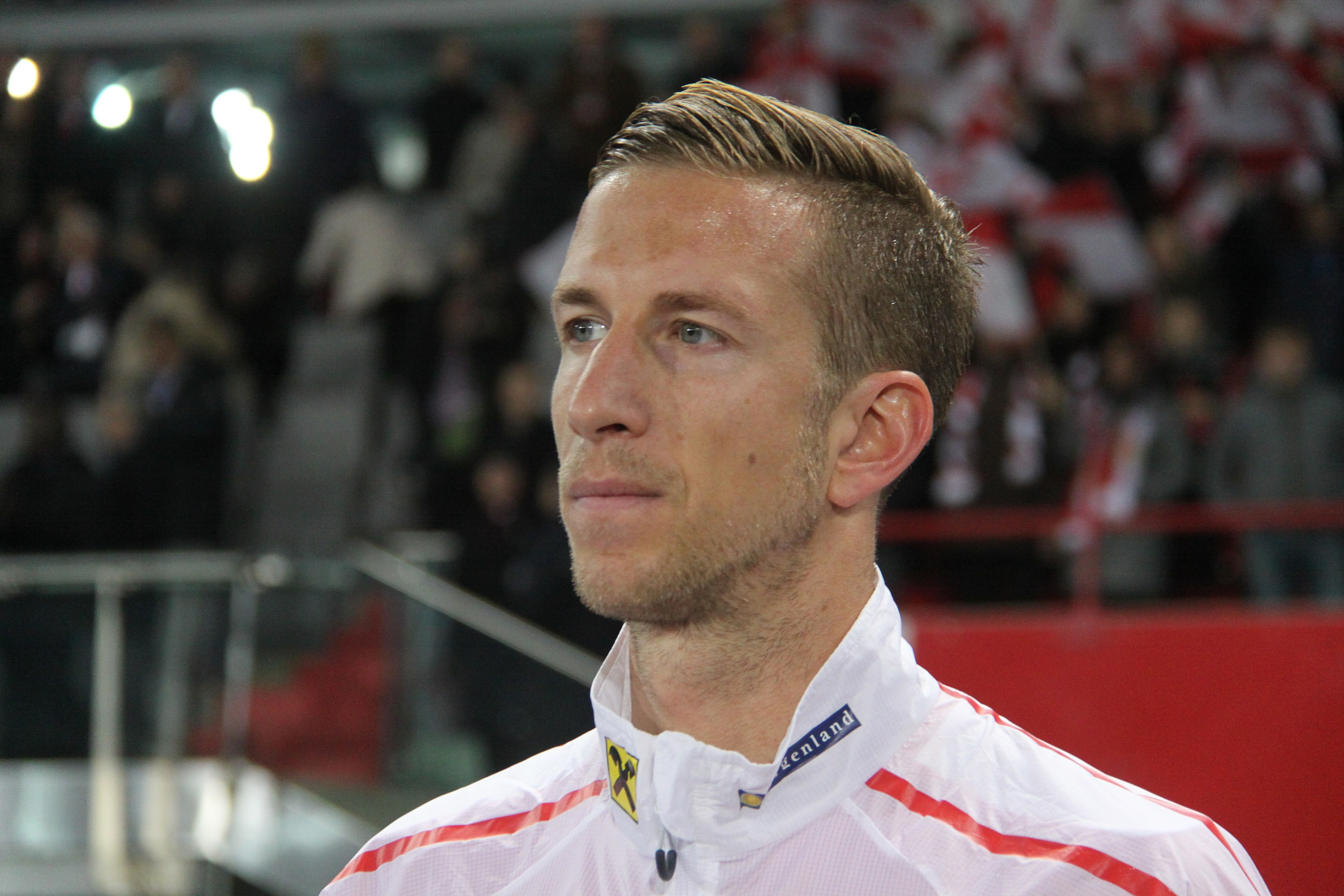 UEFA Euro 2016 qualifying: Austria vs. Russia (1:0 / 0:0) at 2014-11-15 in the Ernst-Happel-Stadion in Vienna. – The photo shows Marc Janko (Austria).